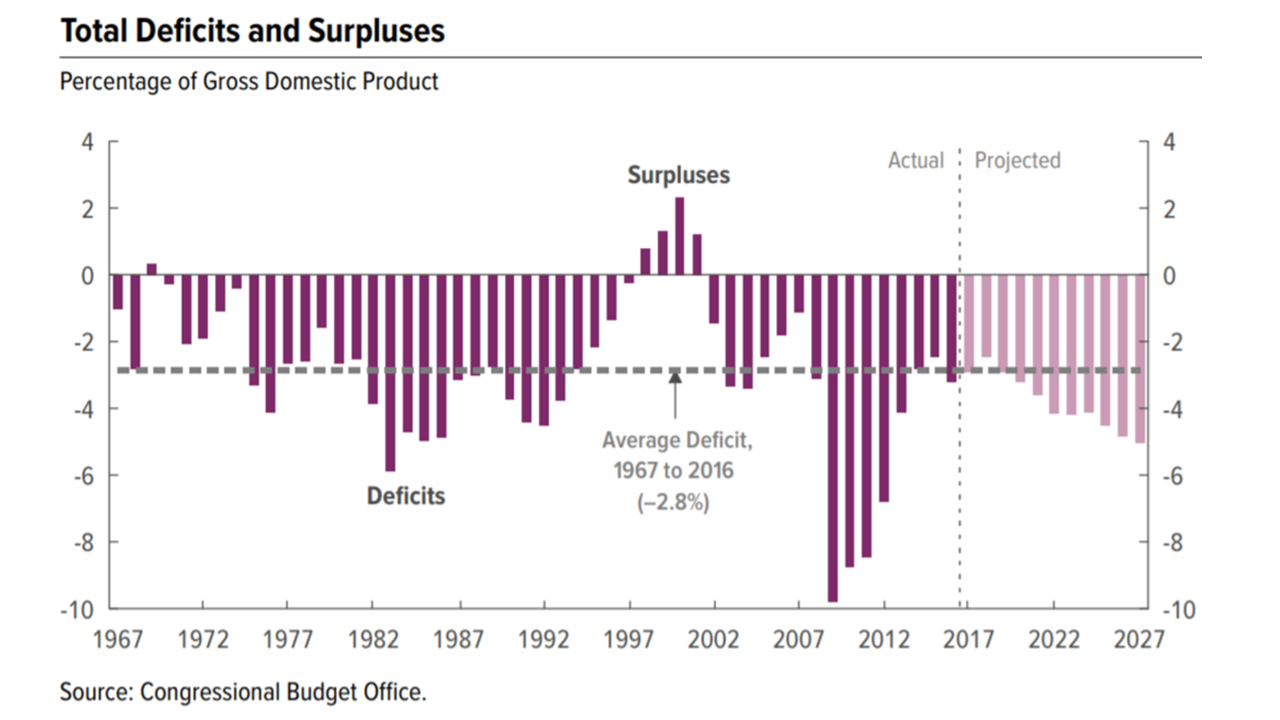 U.S. federal budget deficits and surpluses 1967-2016 historical and 2017-2027 forecast.